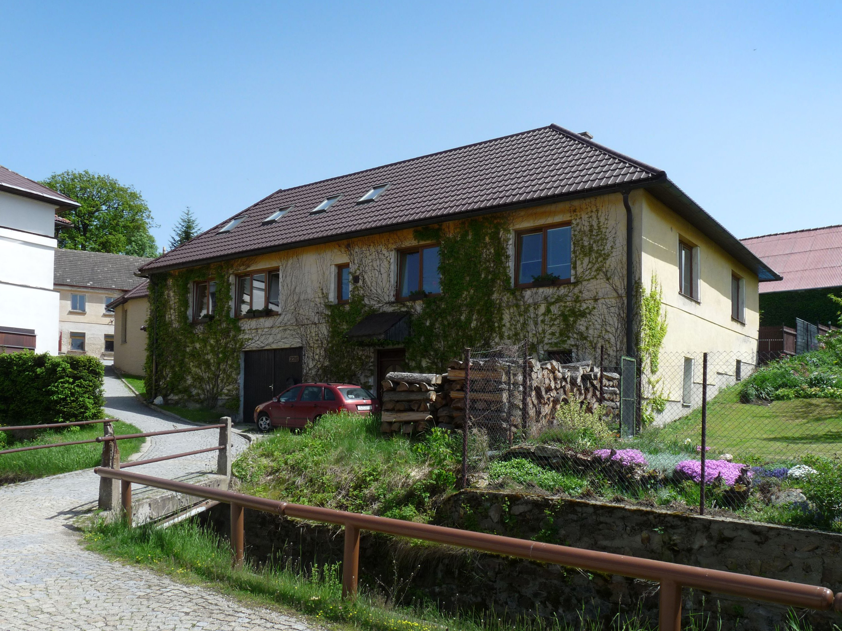 Former synagogue in the town of Černovice, Pelhřimov District, Vysočina Region, Czech Republic.